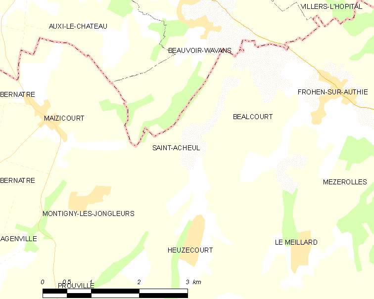 Map of French municipality Saint-Acheul